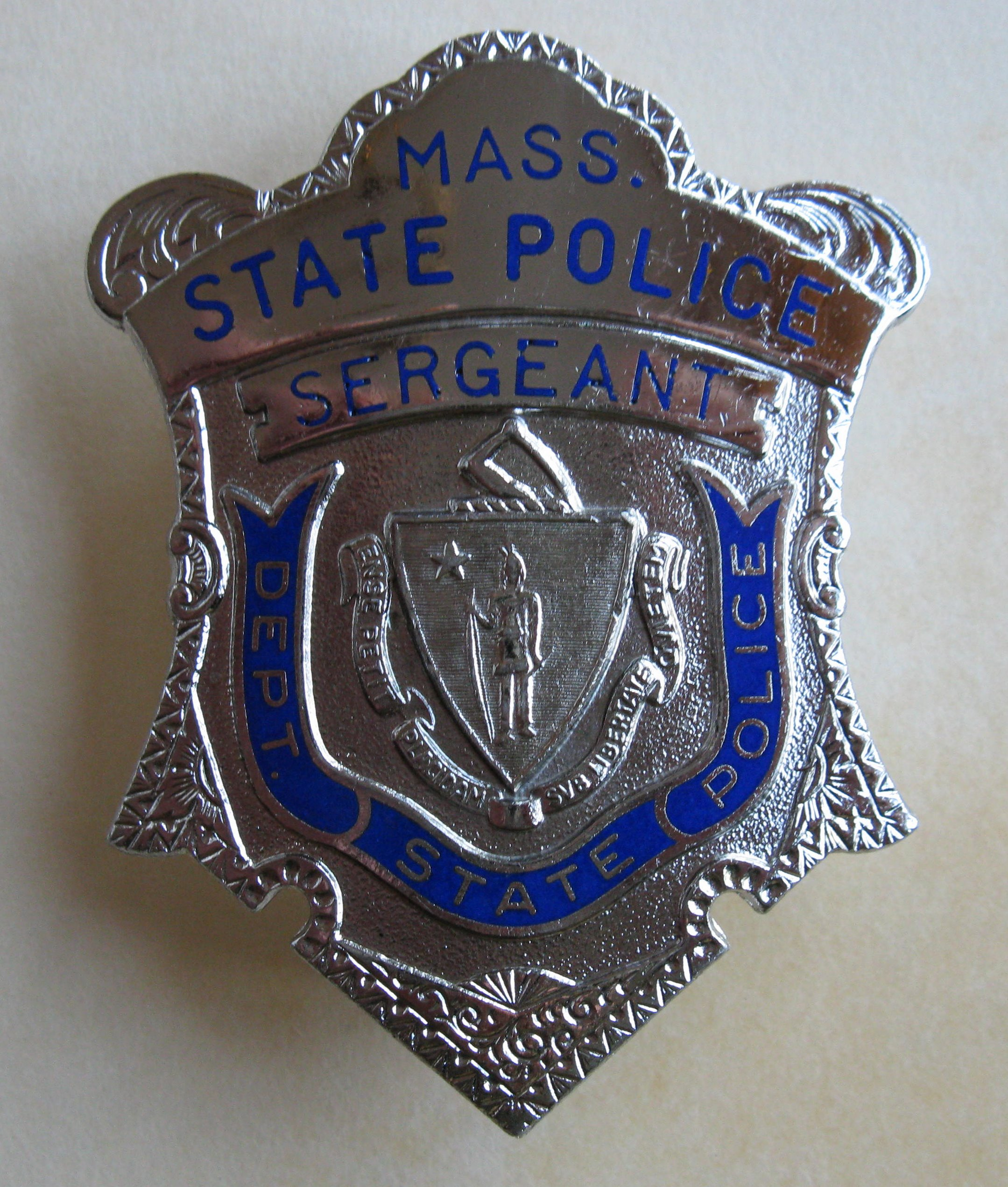 Photograph of Massachusetts State Police Sergeant Badge